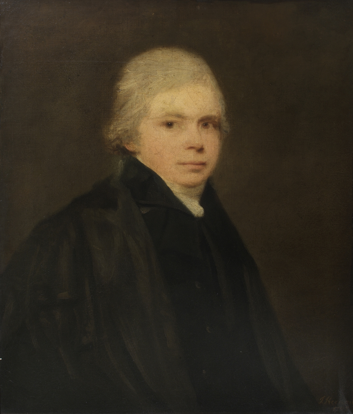 Portrait of George Smith Gibbes (1771–1851), English physician.